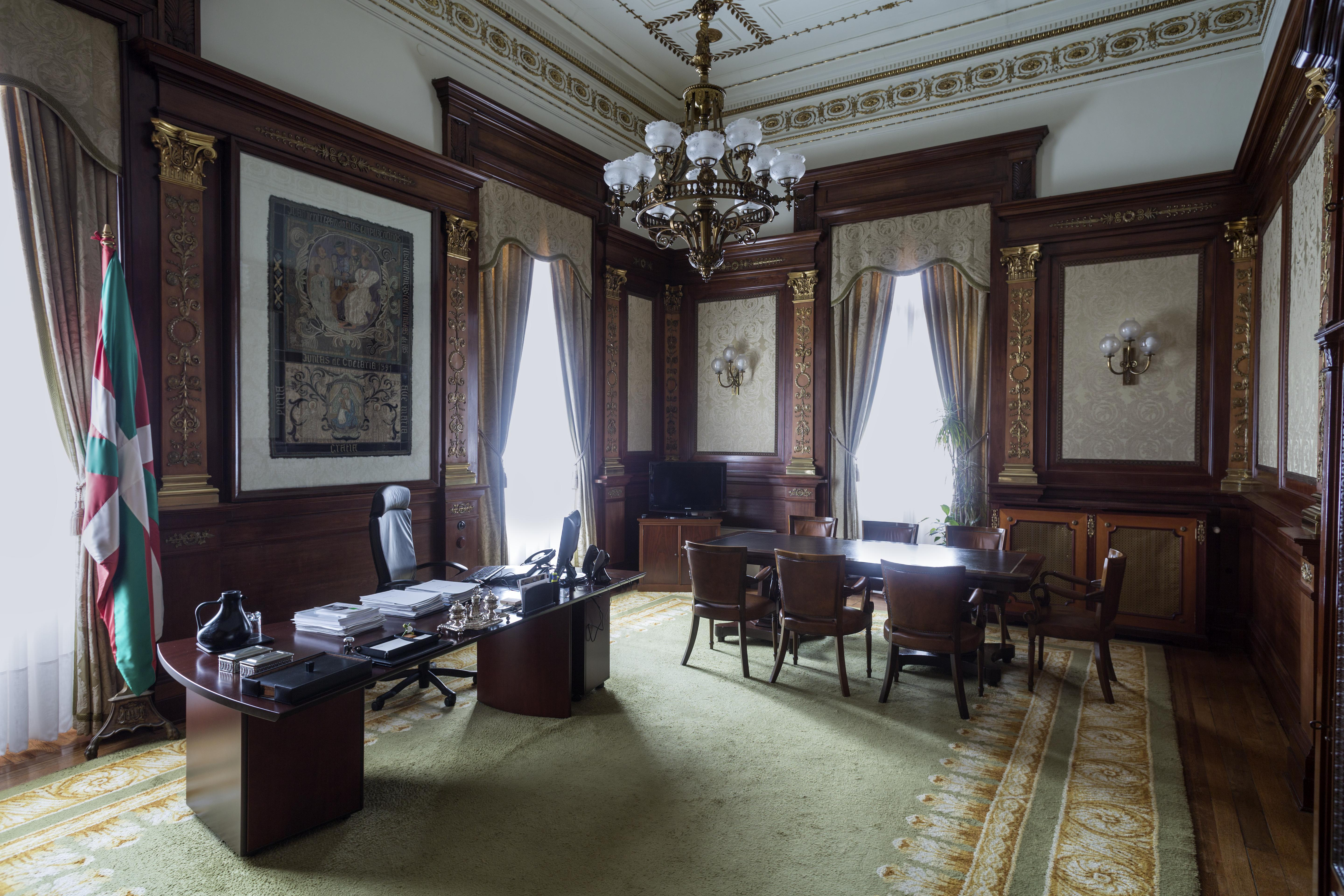 Office of the general deputy